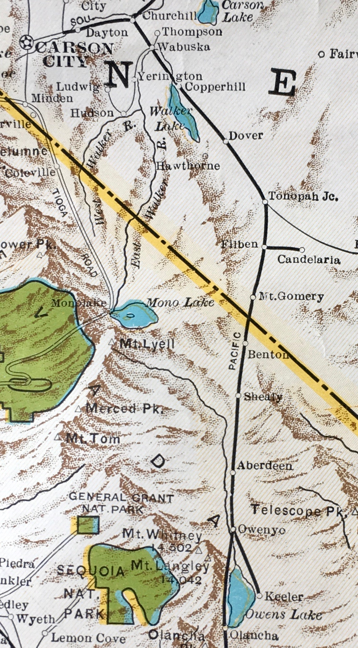 Raillines as of 1931